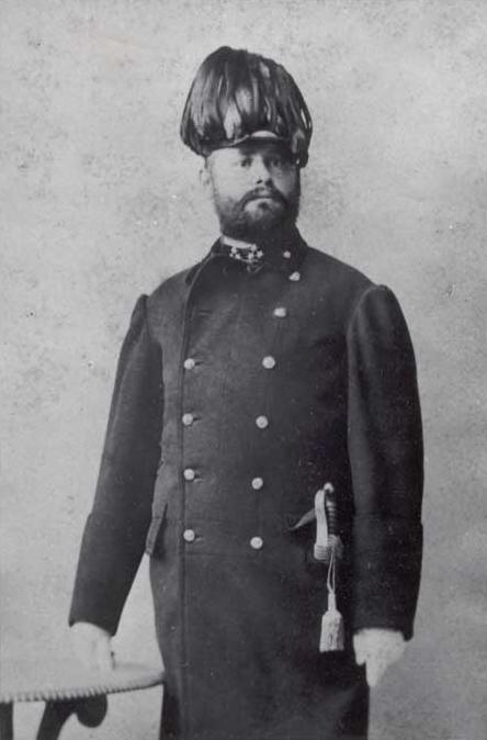 Antonín Čapek